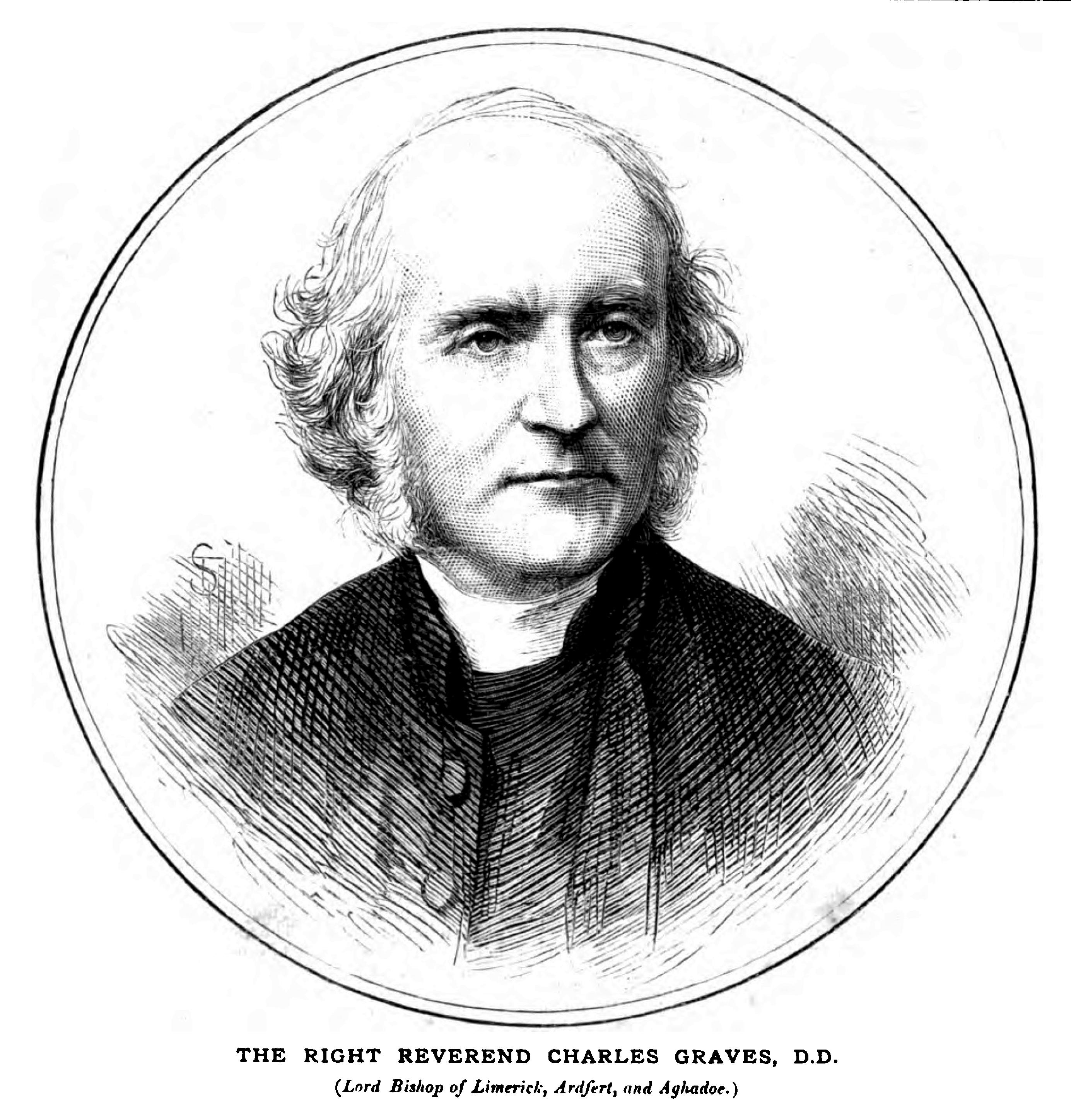 Charles Graves FRS (6 December 1812 - 17 July 1899) was a 19th-century Anglican Bishop of Limerick, Ardfert and Aghadoe.